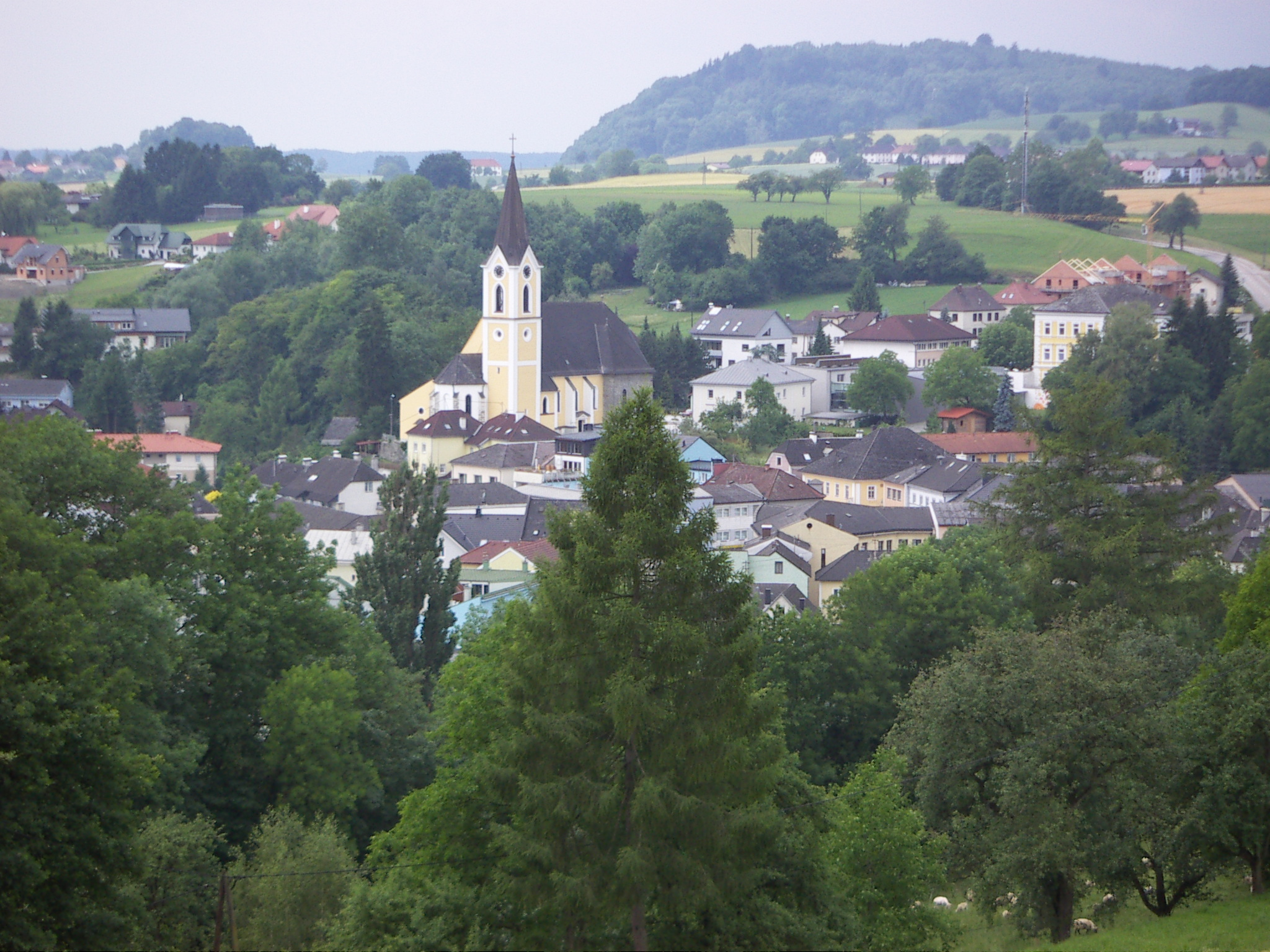 The town of St. Georgen an der Gusen from the East